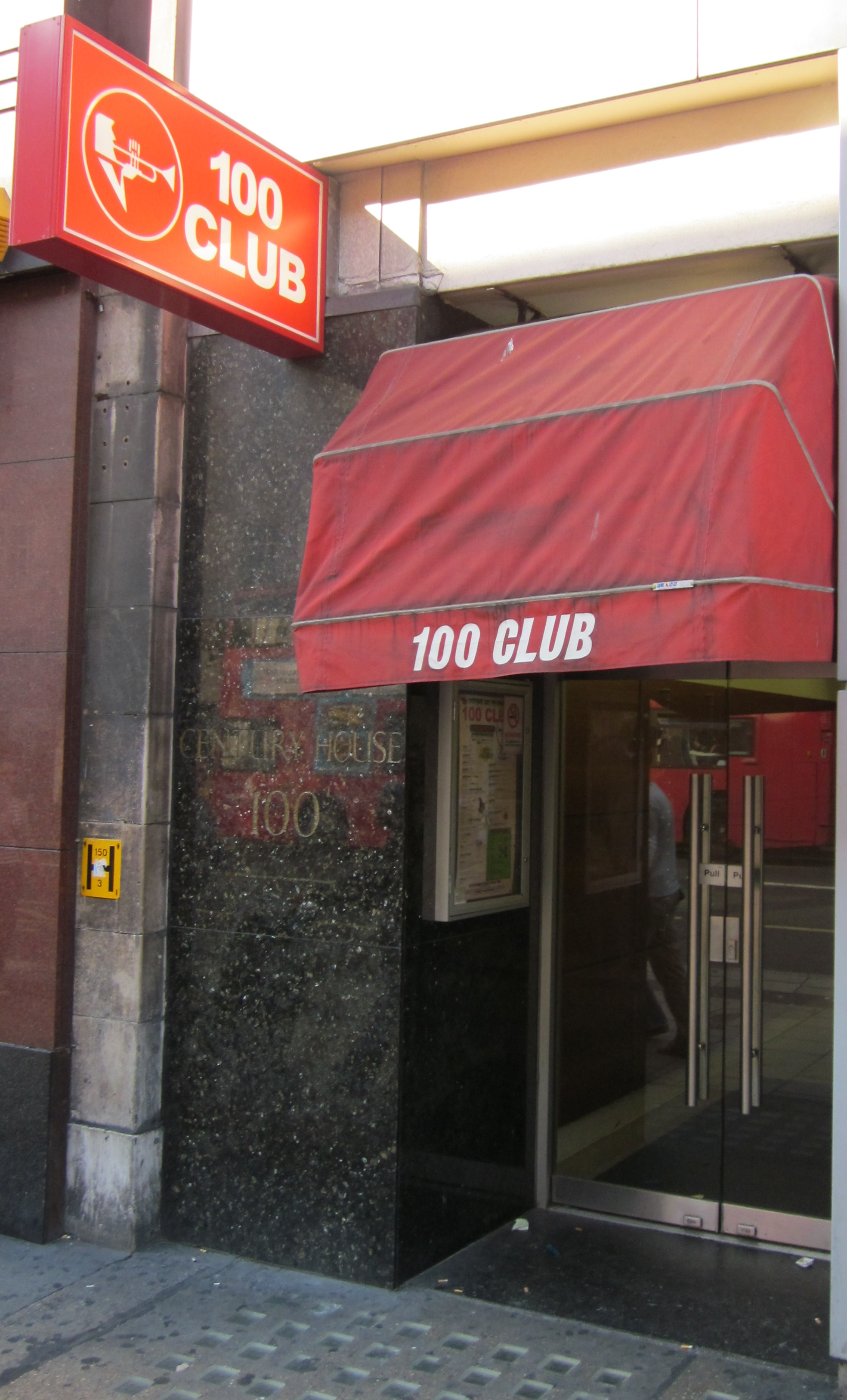 Doorway of the en:100 Club at 100 Oxford Street, London, a legendary venue for swing music and in the development of punk rock.